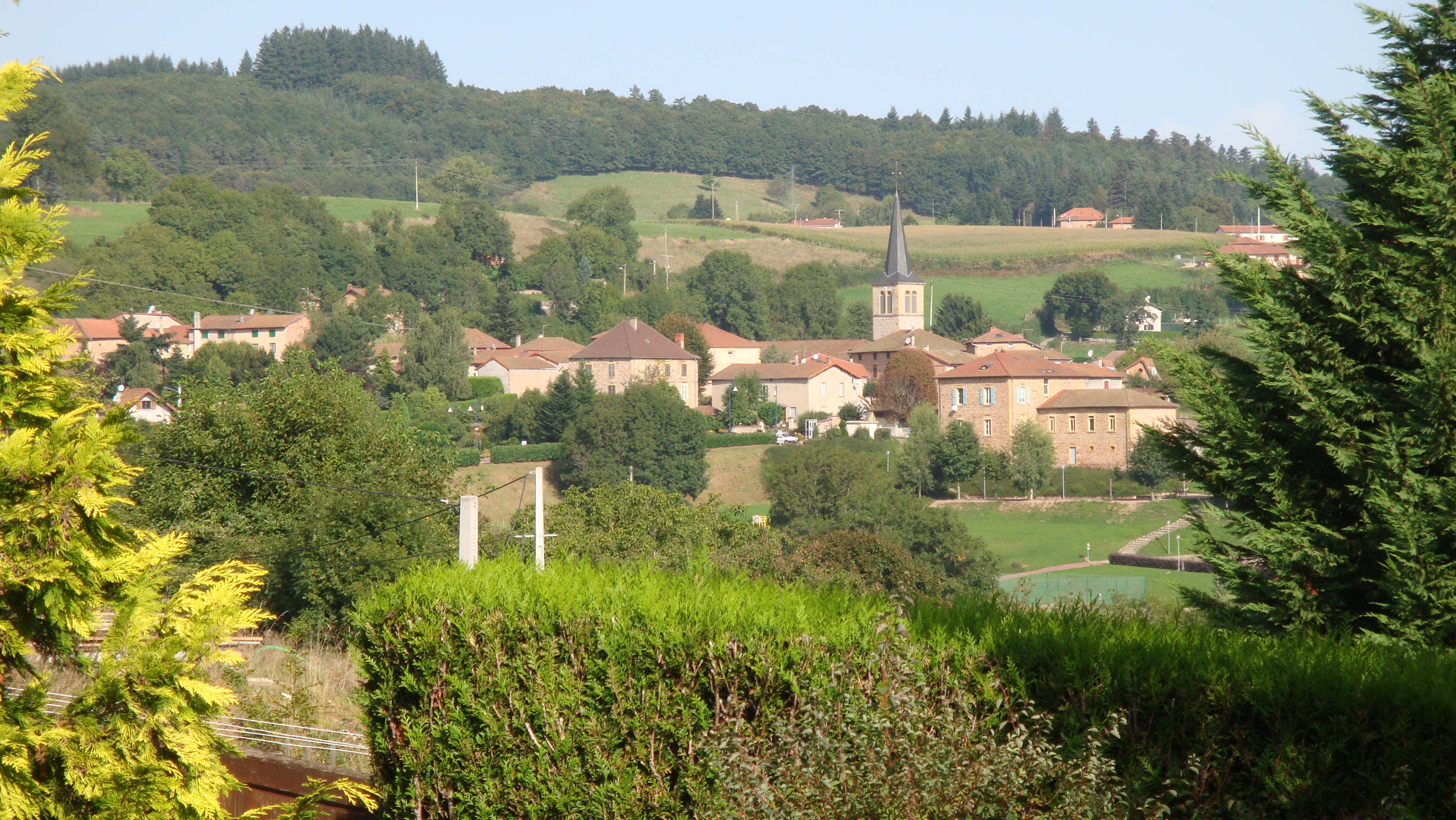 Sevelinges, seen from the south